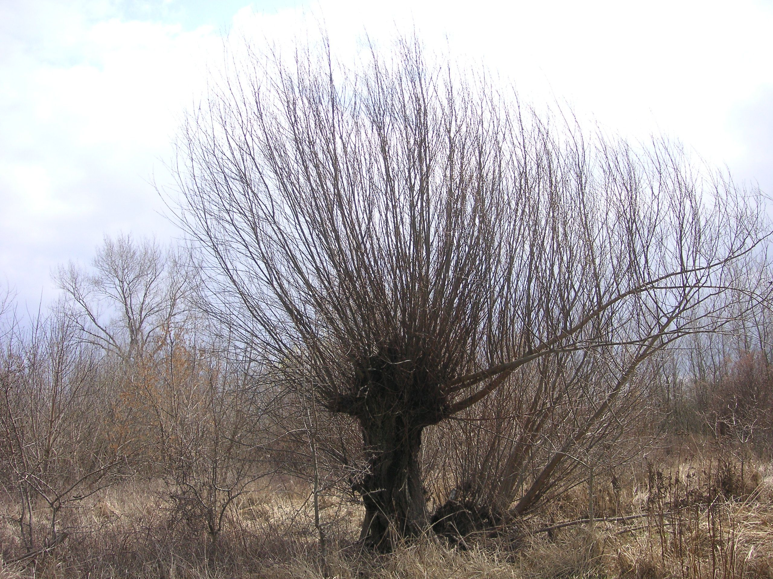 Pollarded willow Author: Wojsyl